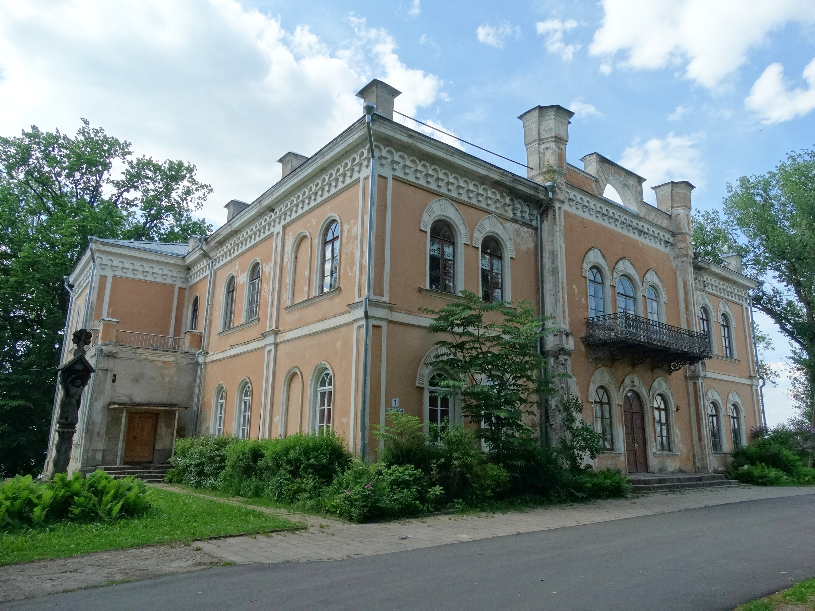 Manor in Glitiškės, Vilnius District, Lithuania